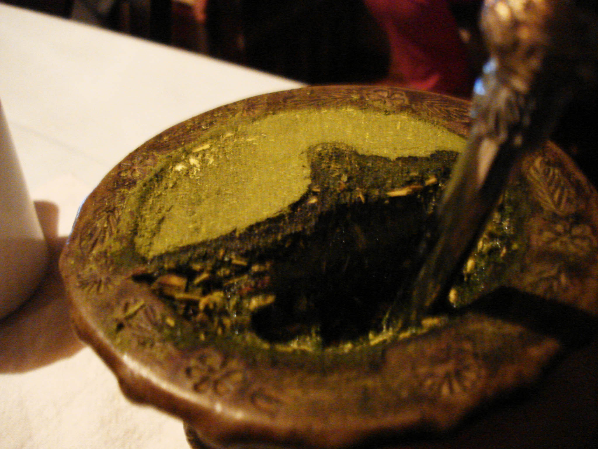 Mate herb in chimarrão cuia